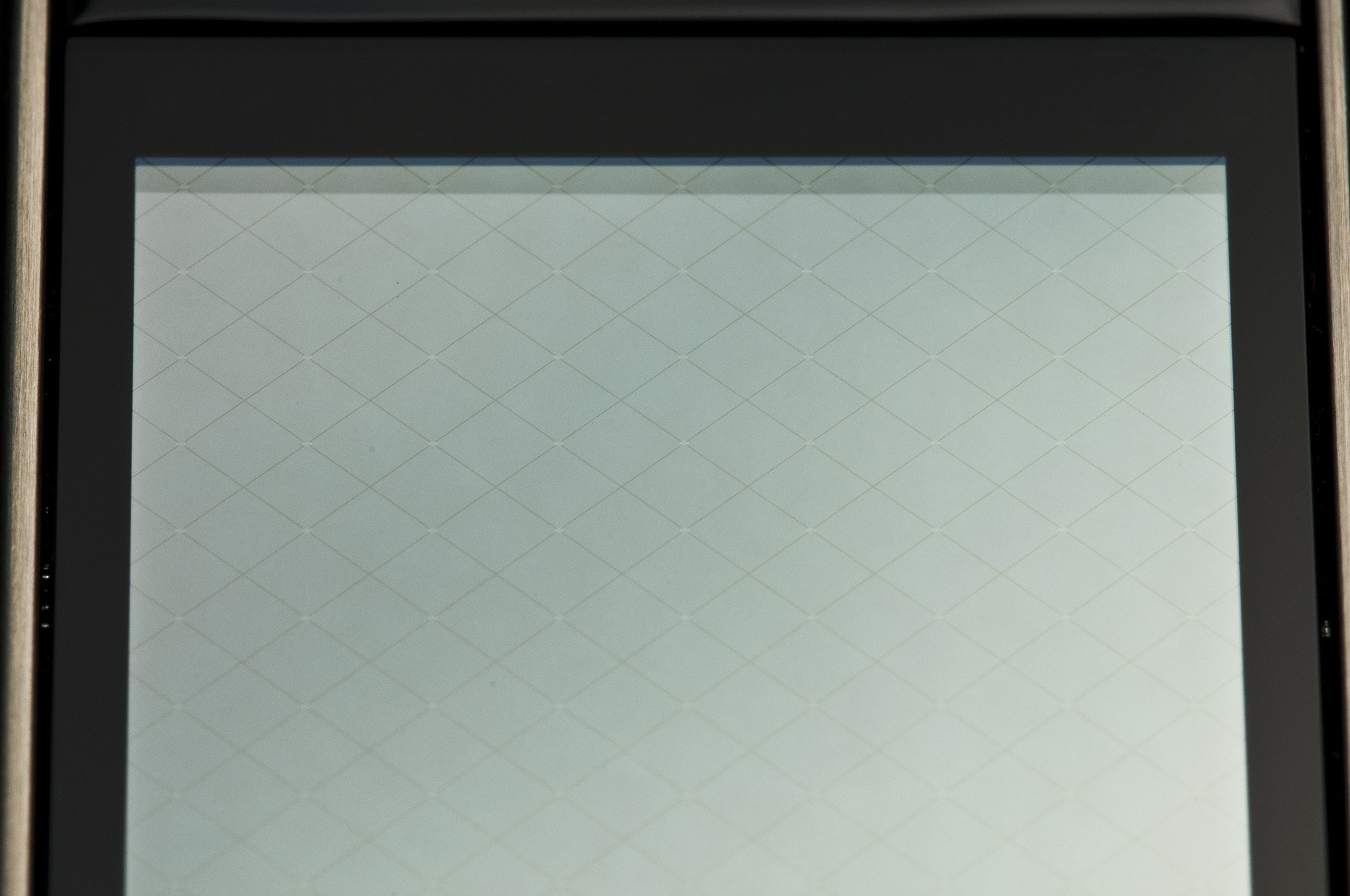 Capacitive touchscreen of a mobile phone with clearly visible conductive tracks